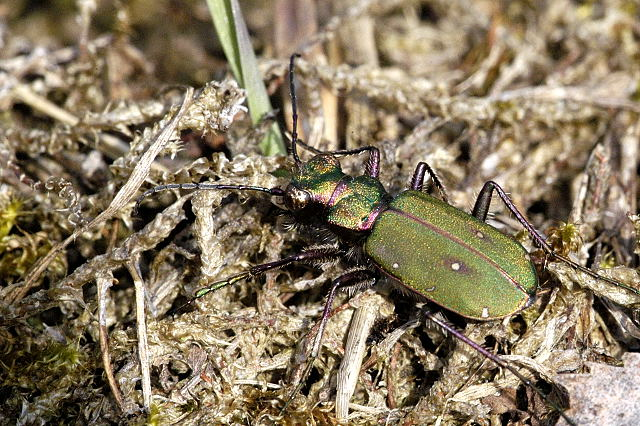 Picture taken in Commanster, Belgian High Ardennes . Species: Cicindela campestris